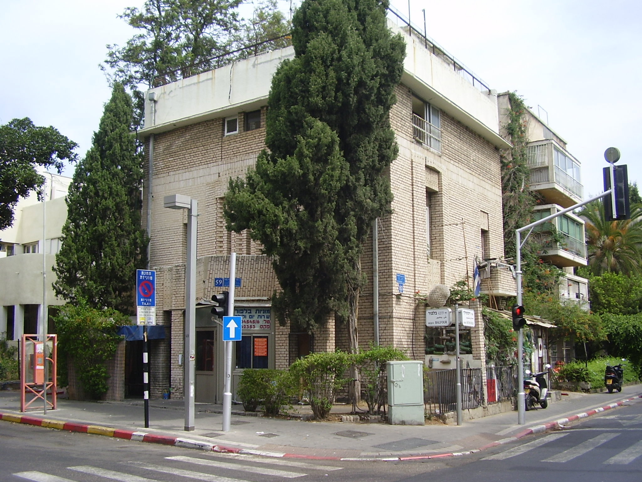 yosef berlin\'s house in rotshild blvd. in tel-aviv